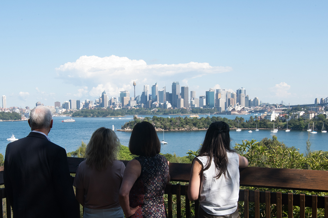 Vice President Mike Pence, Mrs. Karen Pence, and their two daughters, Audrey and Charlotte Pence, take in the view of Sydney Harbor in Sydney, NSW, Australia, Sunday, April 23, 2017. (Official White House Photo by Myles Cullen)